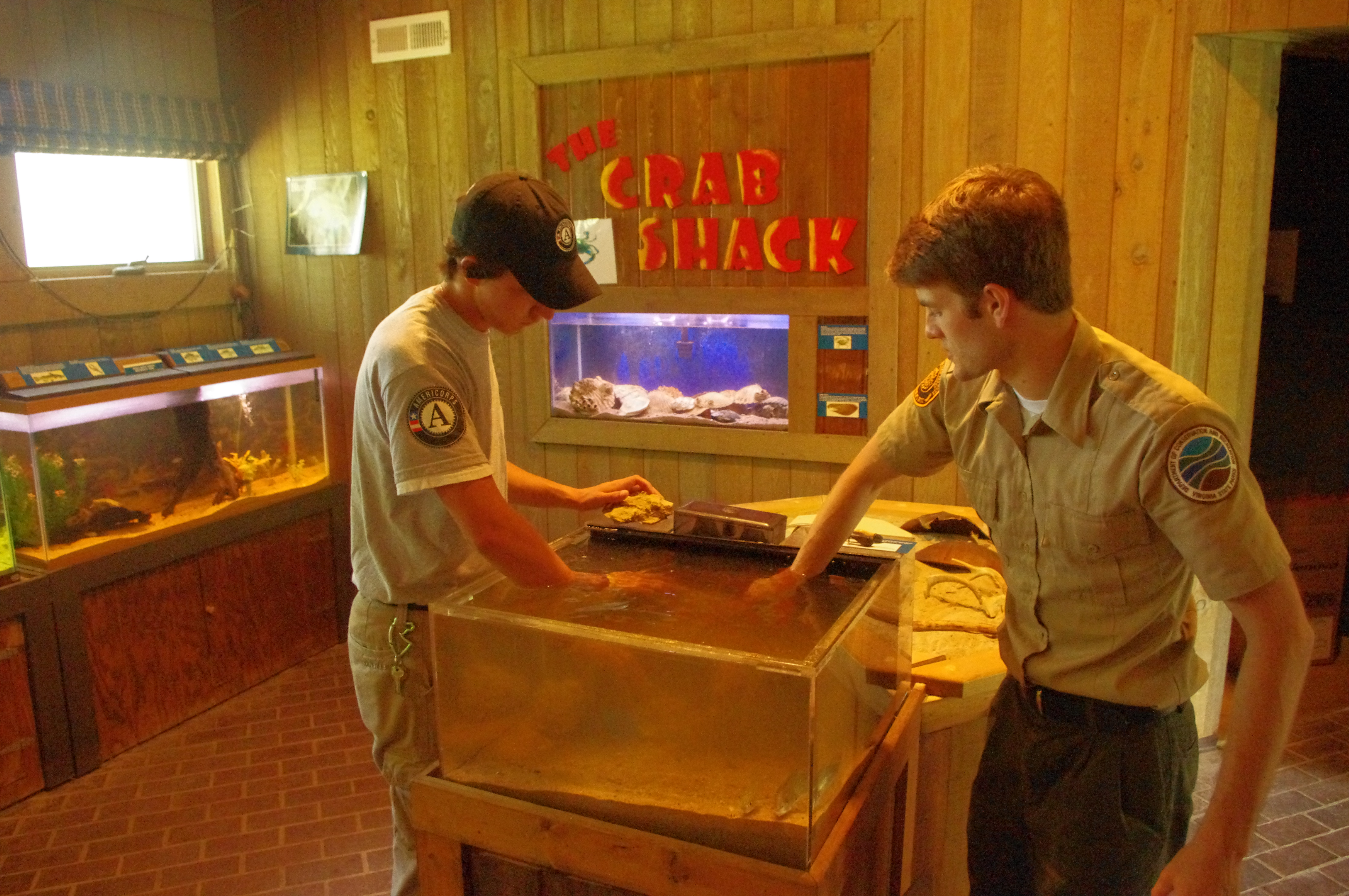 Americorps Intern Blake Turner and Seasonal Interpreter Tim Beck. JG